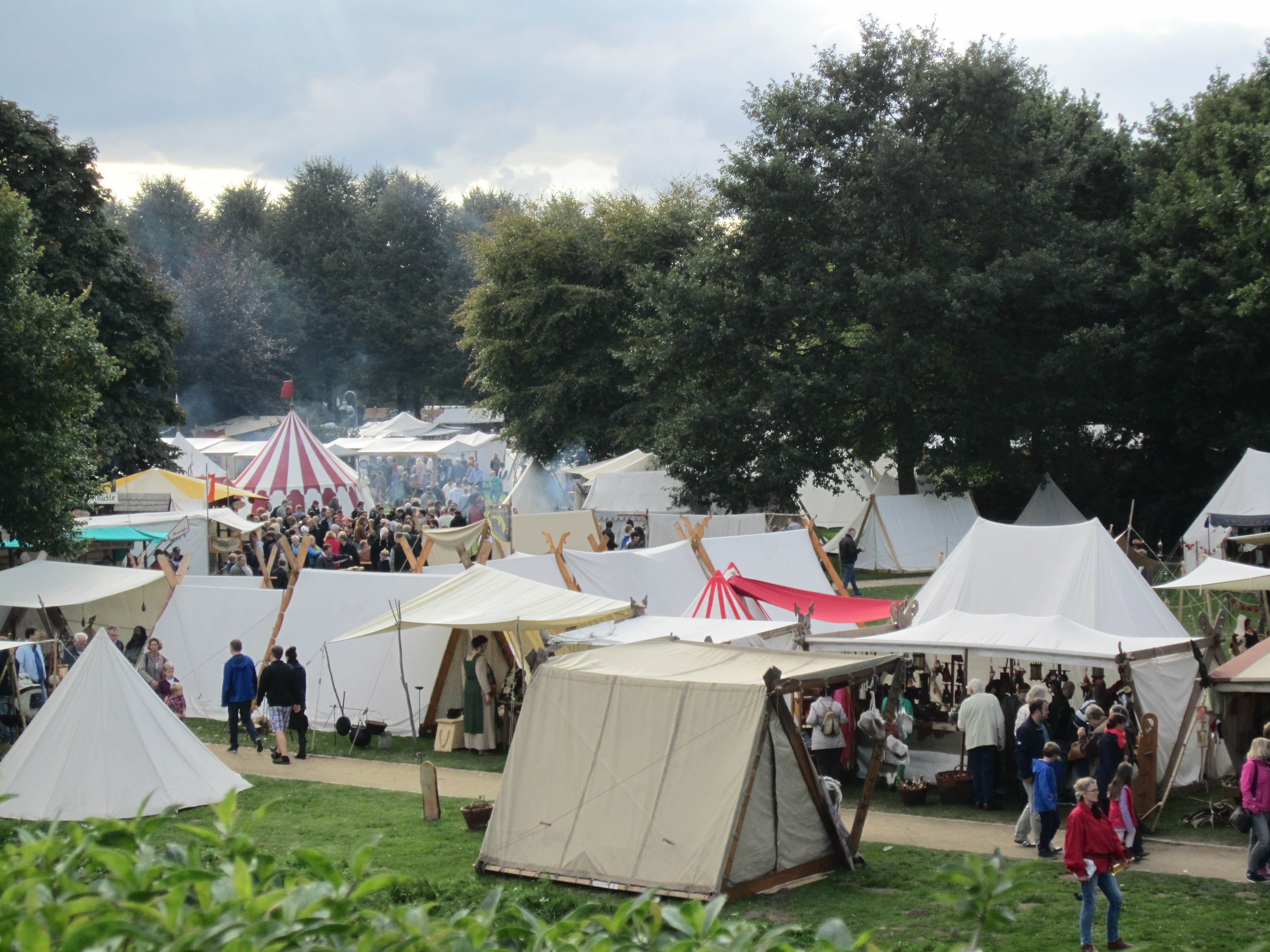 "Burgmannen-Tage" 2015, a medieval festival in Vechta